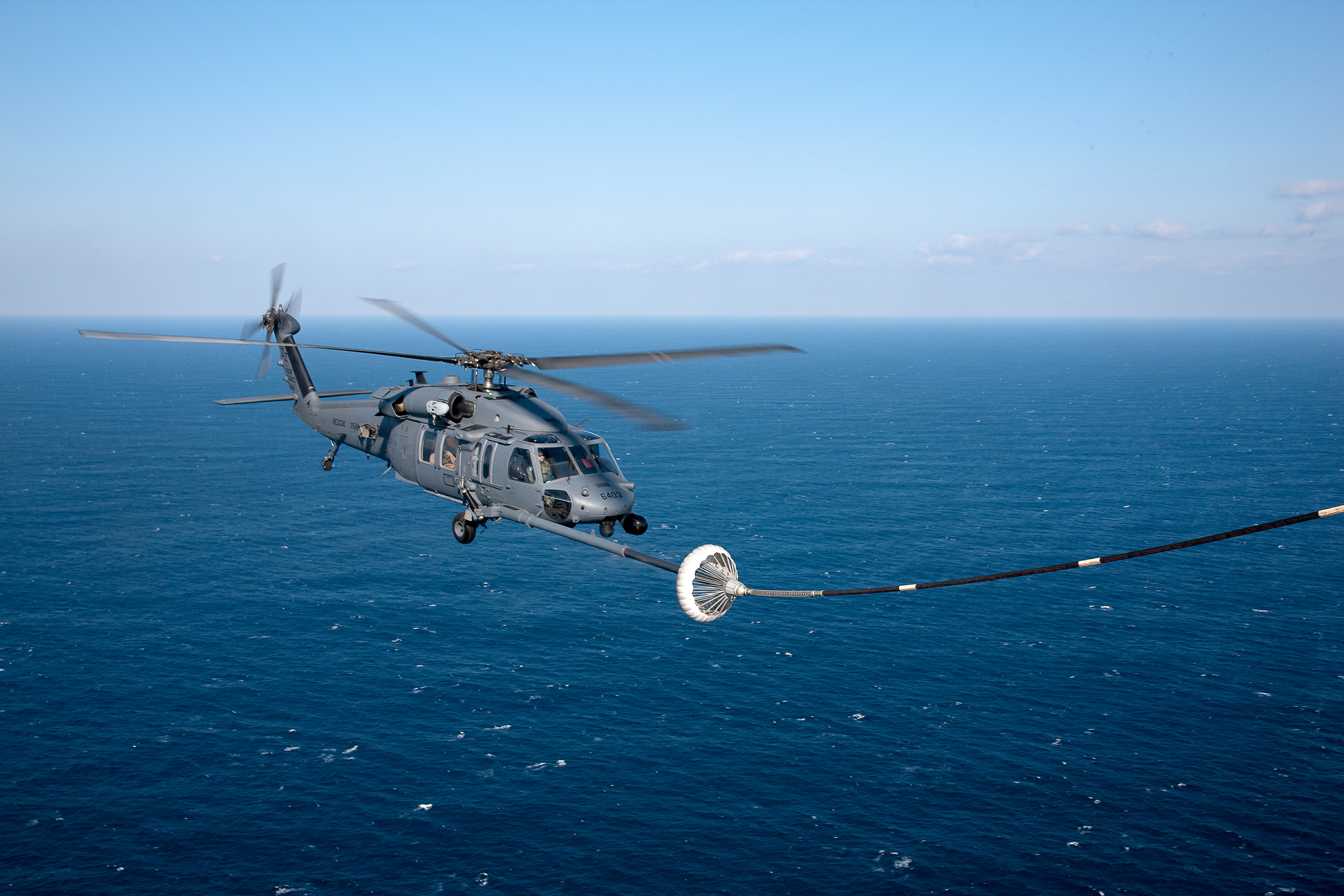 An MC-130P Combat Shadow from the 17th Special Operations Squadron refuels a HH-60 Pave Hawk helicopter from the 33rd Rescue Squadron March 18. The refueling missions are in support of humanitarian relief operations after an 8.9 magnitude earthquake and following tsunami that rocked northeastern Japan March 11. Location:PACIFIC OCEAN, FUKUSHIMA, JP